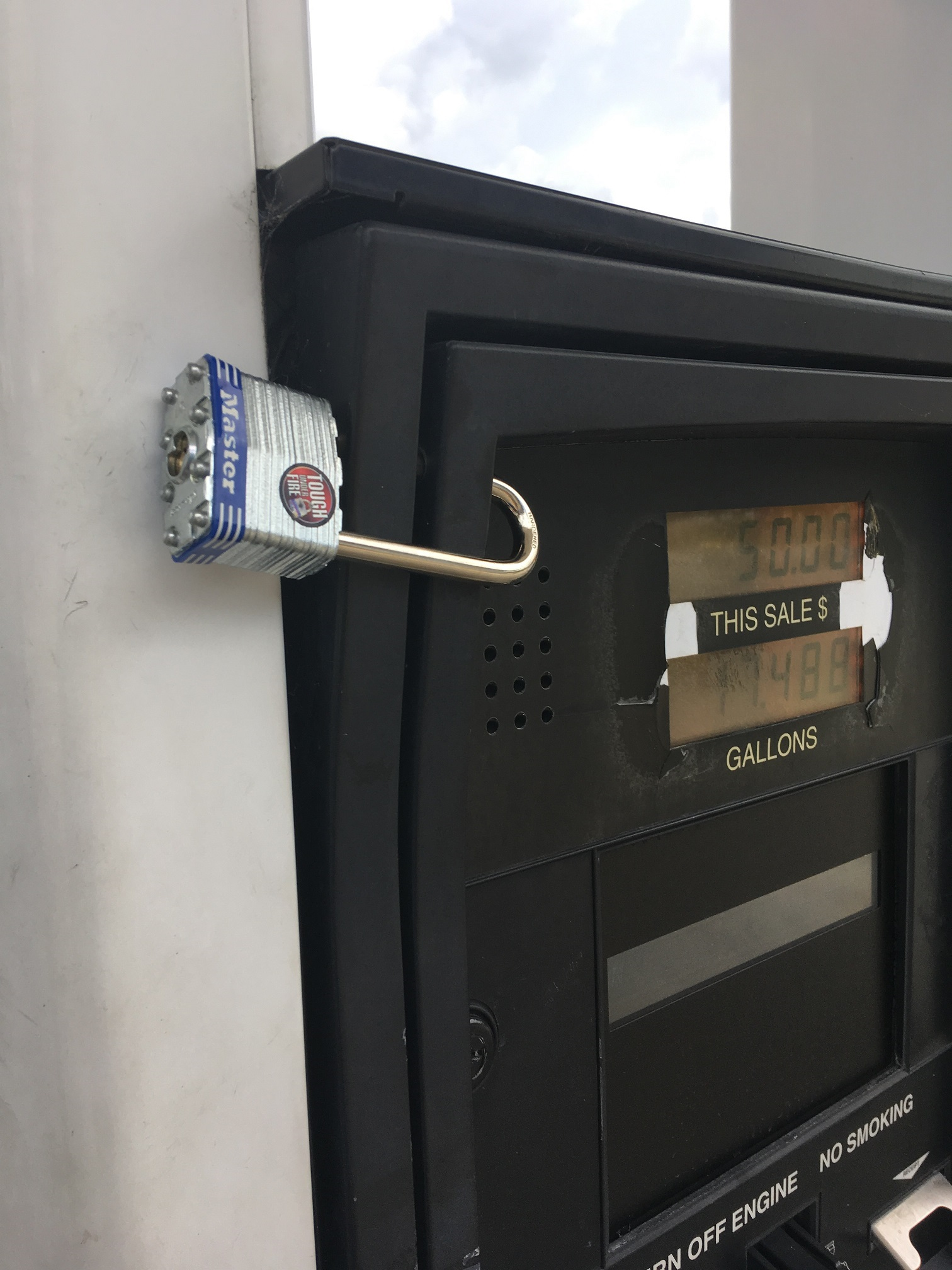 Lock on gas pump to stop thieves from installing a skimmer device